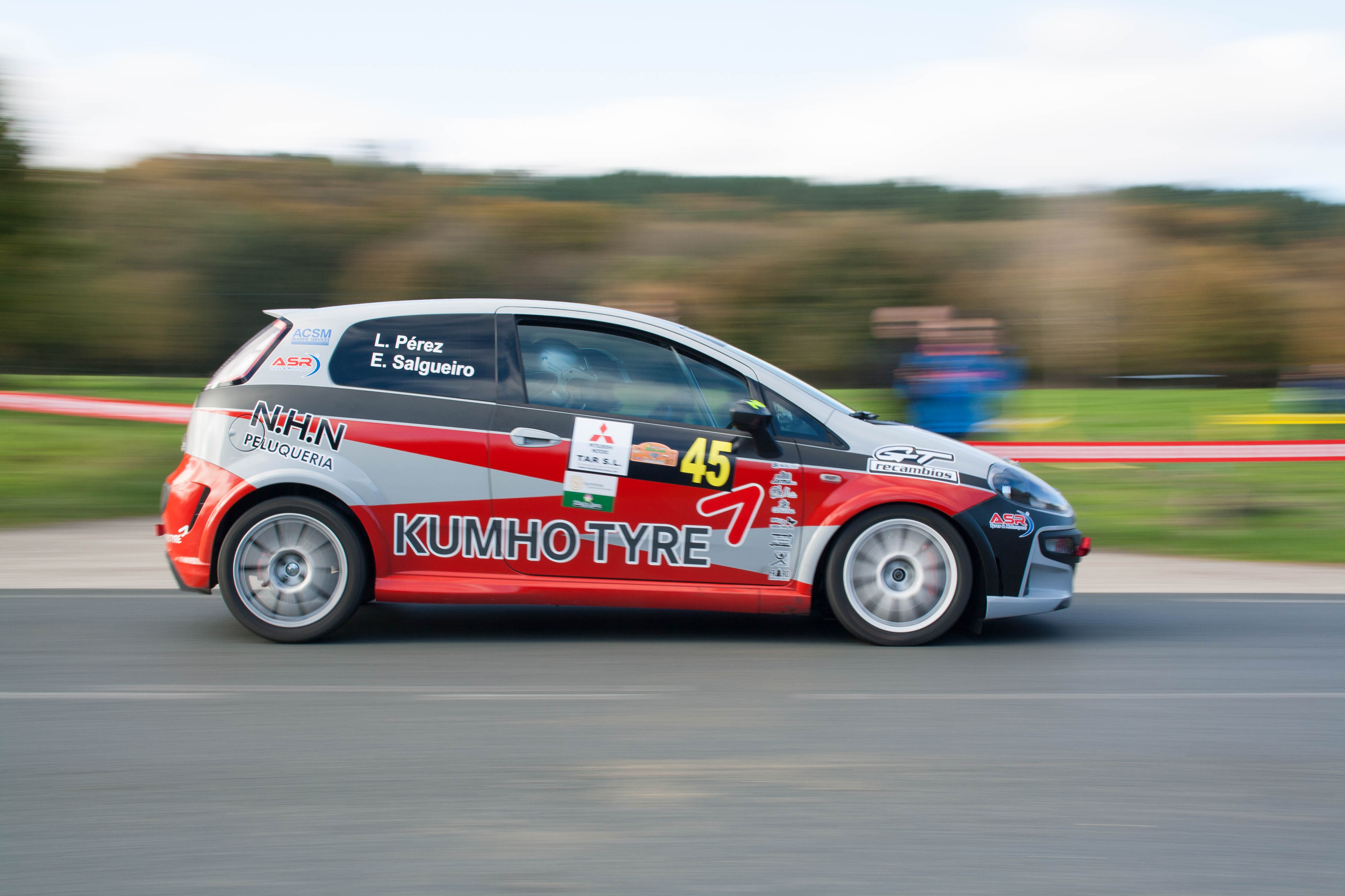 L.Pérez in the Rally of the Ribeira Sacra (Maceda-Baldrey)